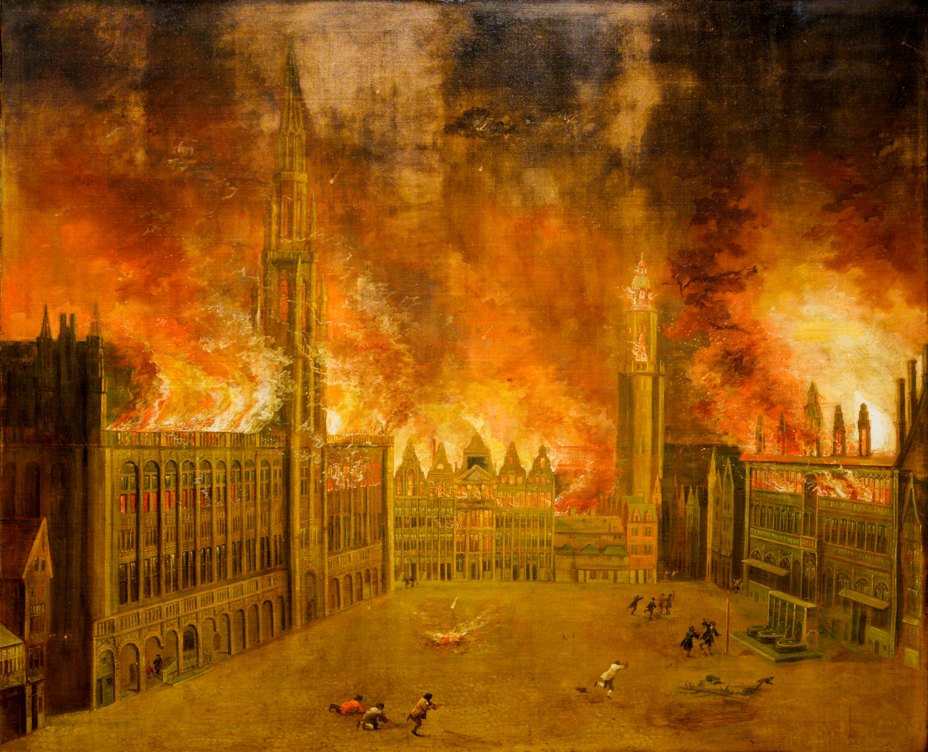 The Bombardment - Anonymous (1695) - The Grand Place on fire during the night of August 13th to 14th. Painting exhibited in the Museum of the City of Brussels. This photograph is part of the Natural Image Noise Dataset